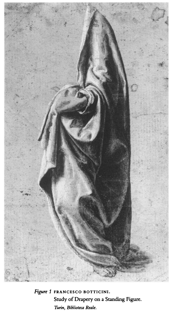 Drawing by Francesco Botticini